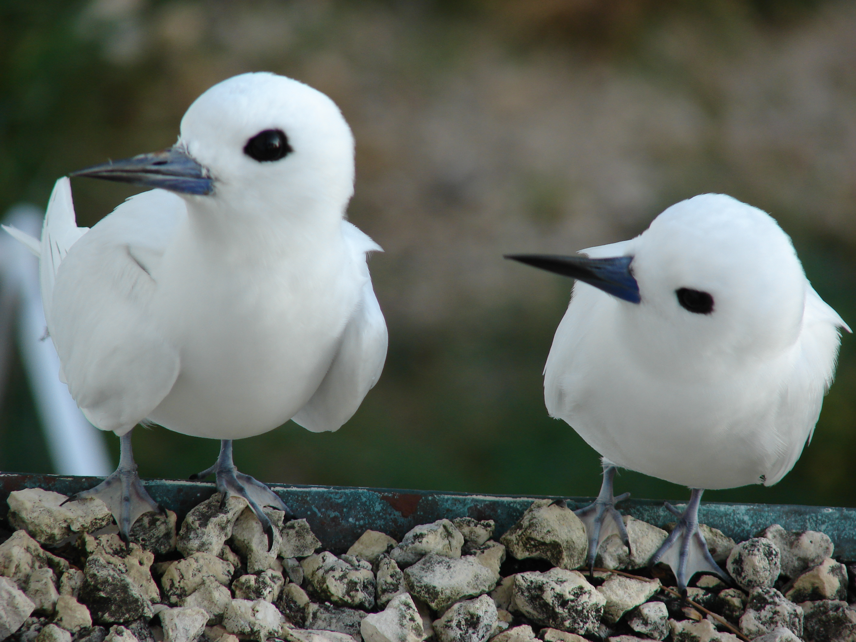 Pilea microphylla (habitat with white terns). Location: Midway Atoll, Charlie barracks Sand Island